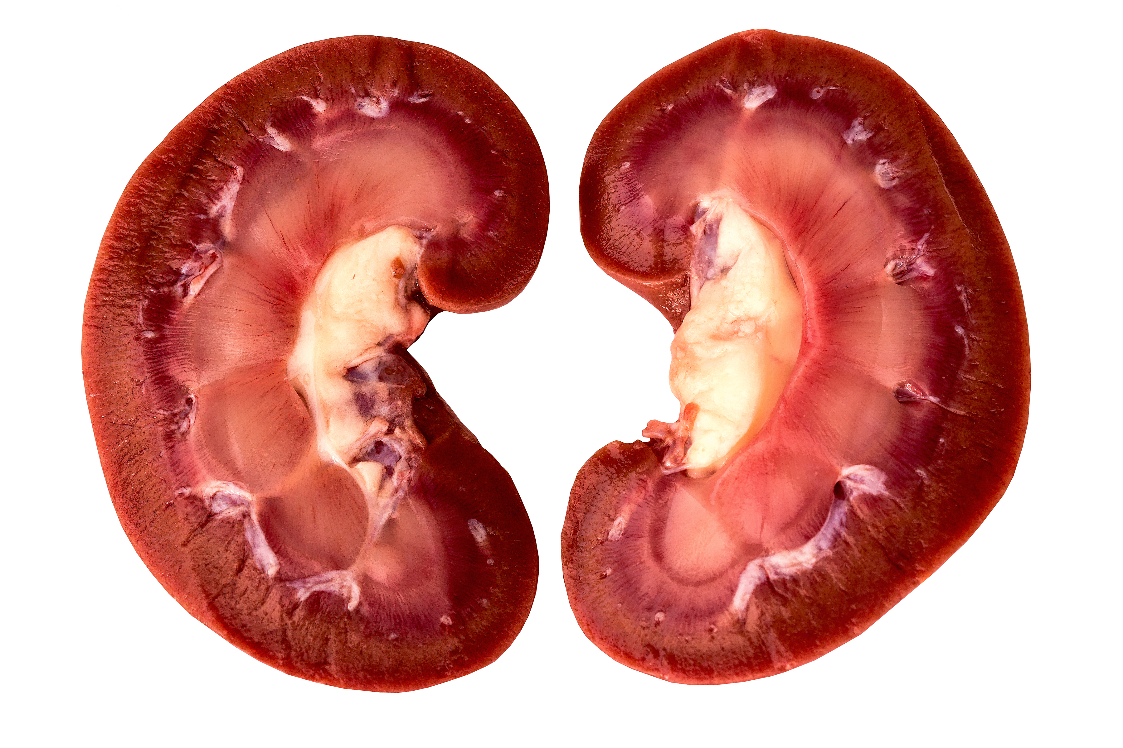 The internal structure (anatomy) of the sheep's kidney in the section.